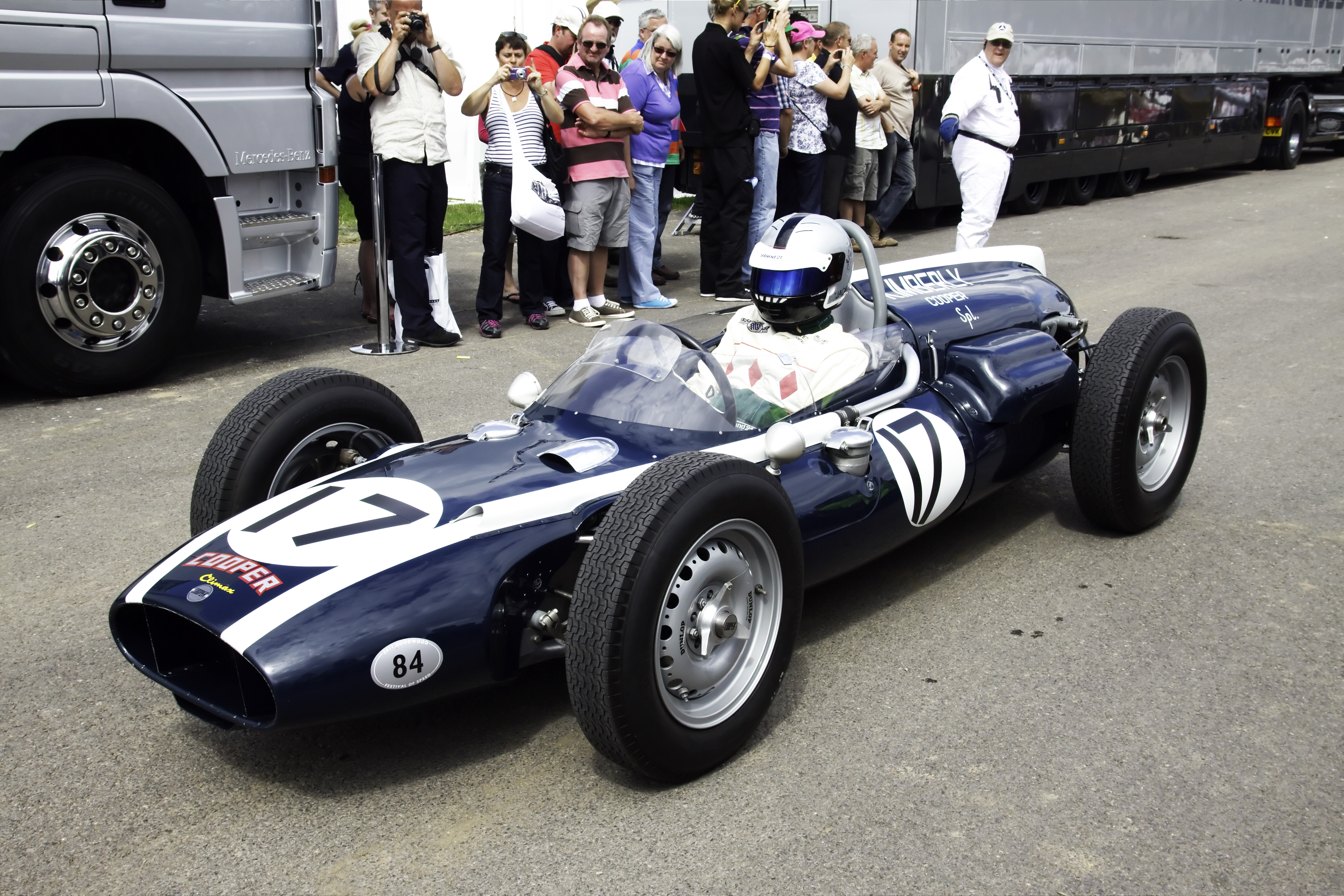 Cooper-Climax T54 "The Kimberly Special"